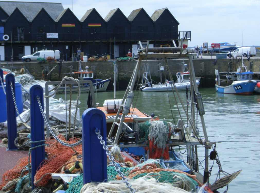 Whitstable Harbour